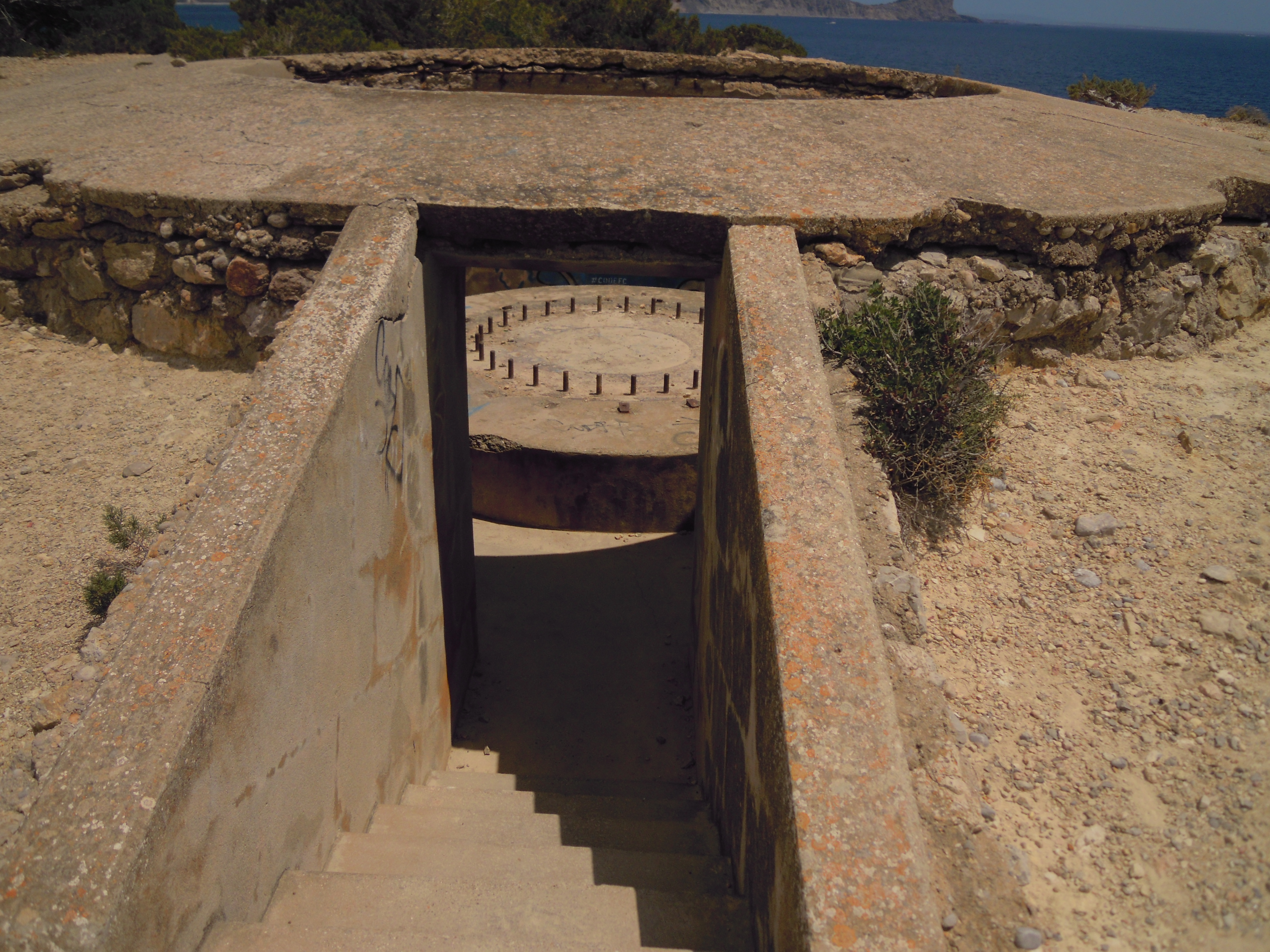 A Photograph of one of the three gun emplacements which form the Sa Caleta Coastal Battery, Ibiza, Spain